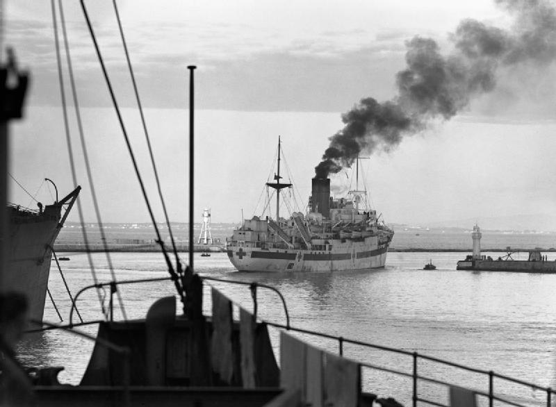 The British Hospital ship HMHS Newfoundland leaving Algiers harbour.